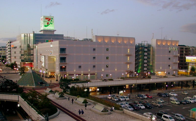 SELVA